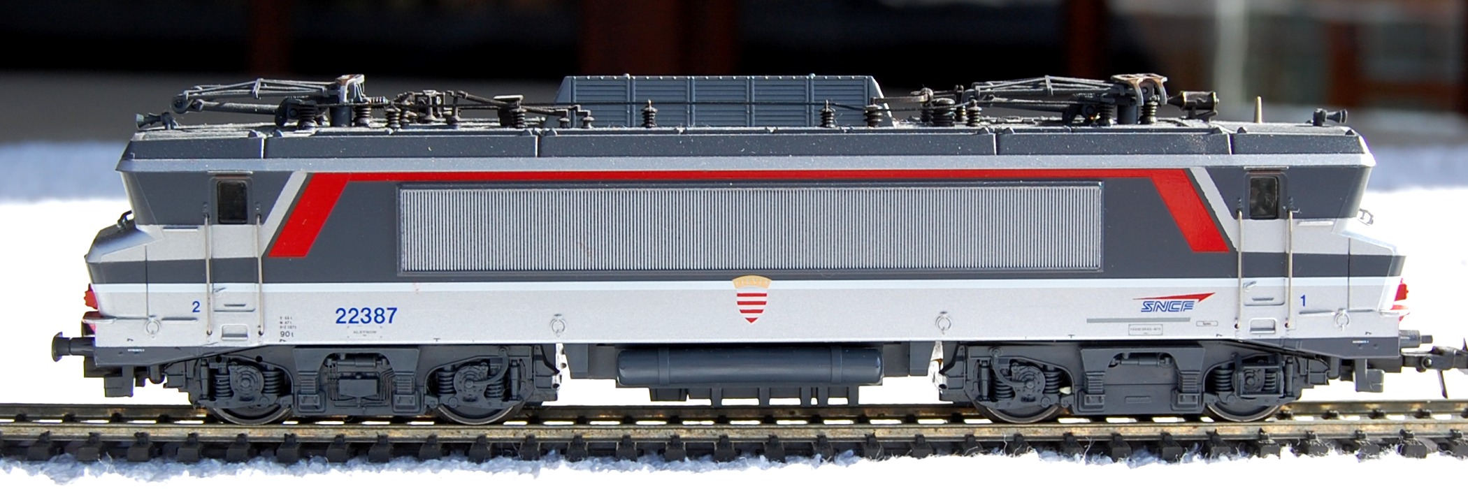 Roco scale model of French electric locomotive BB 22000.